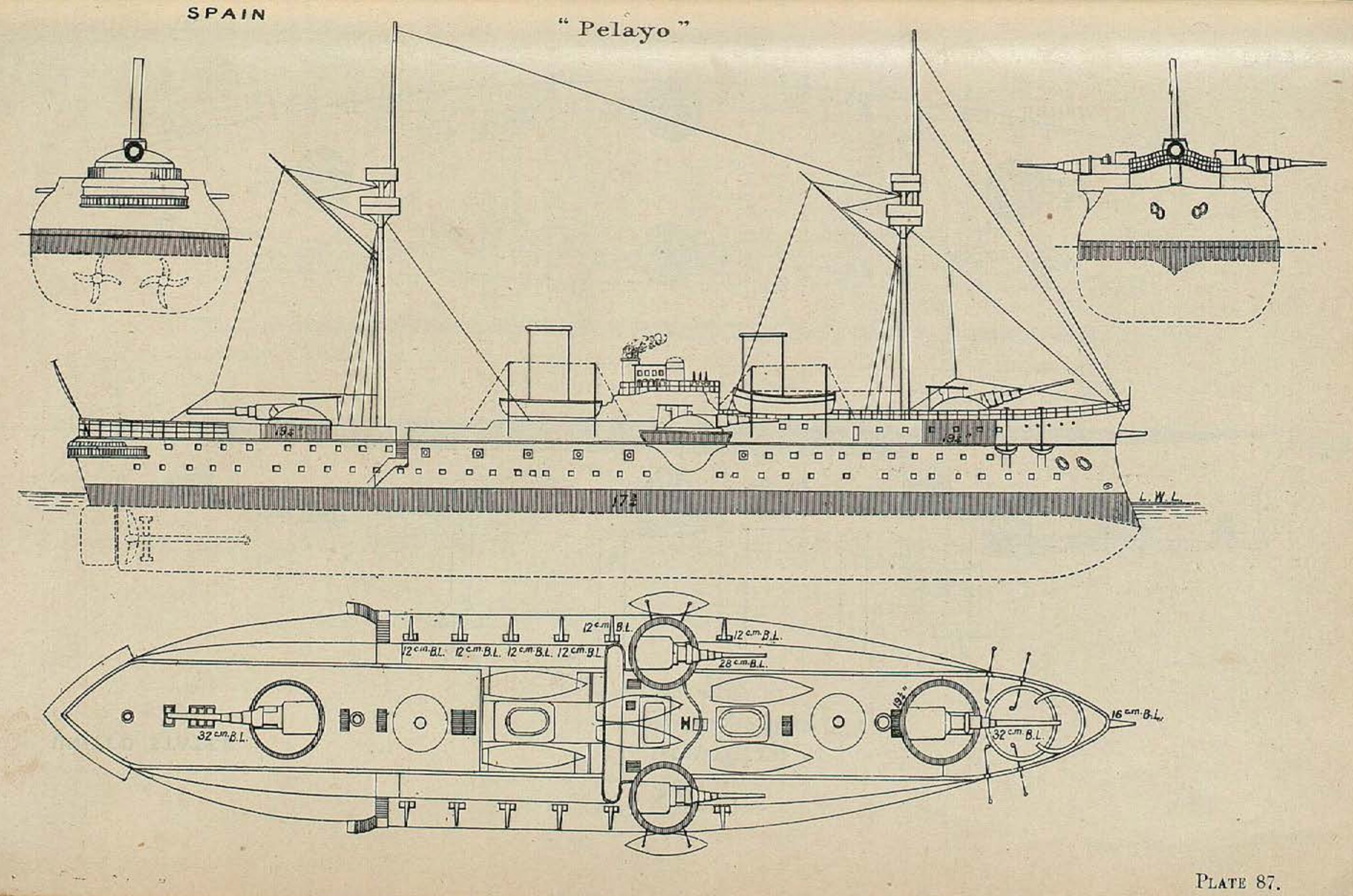 Right elevation and deck plan depicting Spanish battleship Pelayo. Top diagram (right elevation) shows armour thickness in inches. Bottom diagram (deck plan) shows gun sizes in cm.